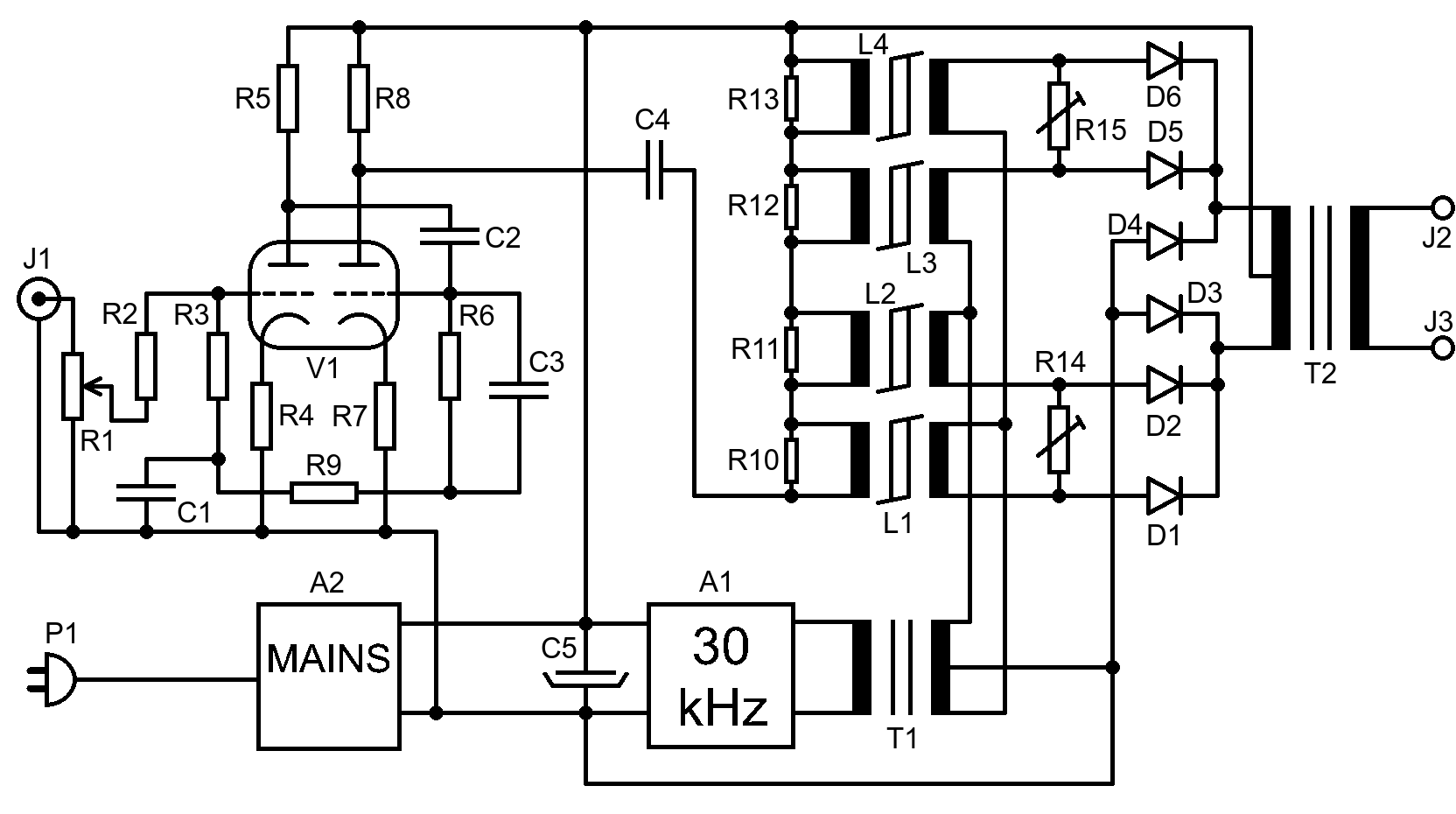 The schematic drawing of Lars Lundahl's MagAmp according to German Image Hifi 4/96 magazine.